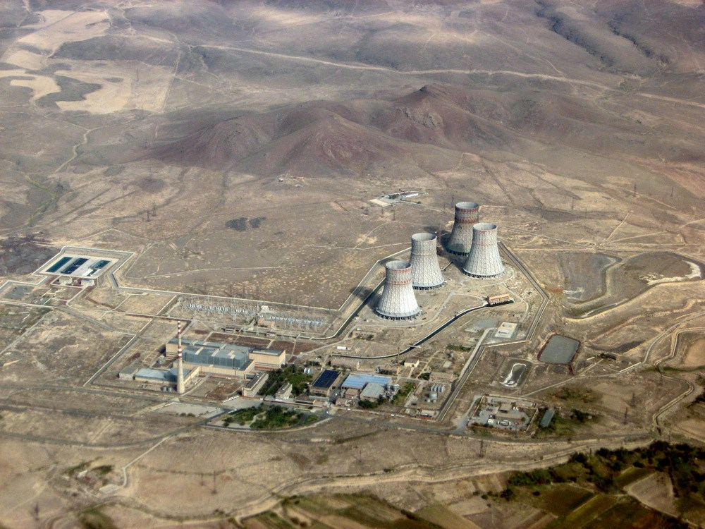 The armenian Metsarmor nuclear power plant